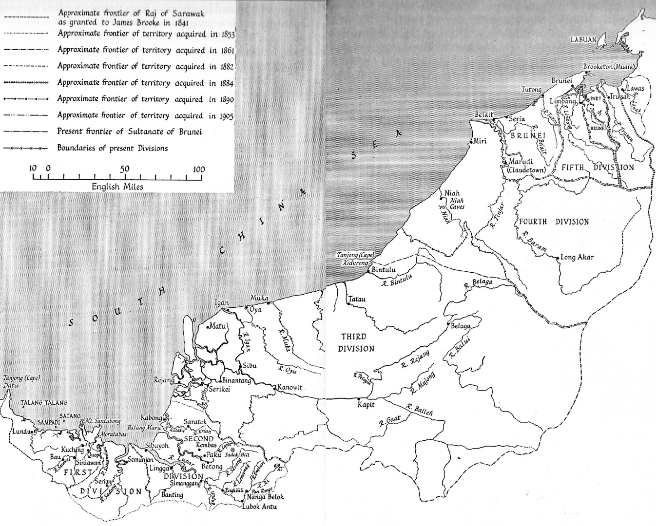 Expanding boundaries of the Raj of Sarawak from 1841 until 1905.